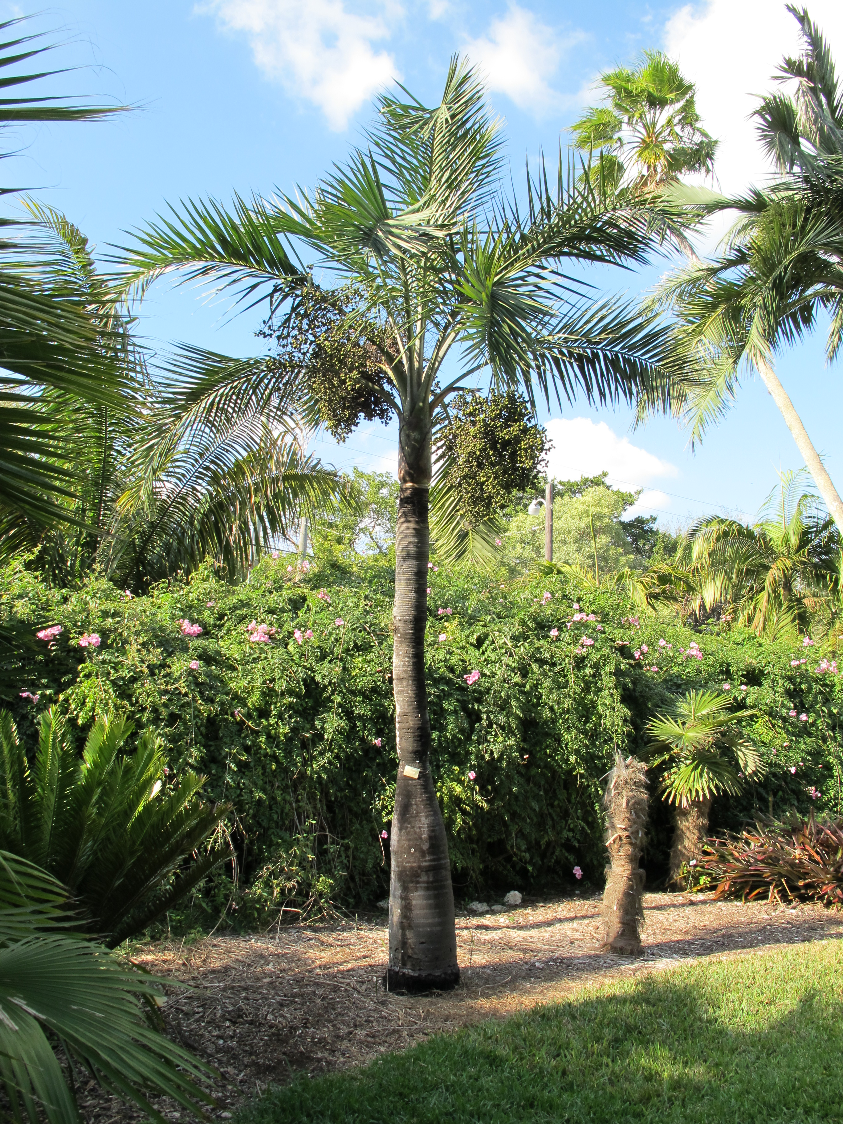 Palm tree - Pseudophoenix sargentii - Fairchild Tropical Botanic Garden